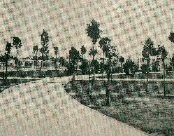 Foto del parque Maria Luisa en los años 1930s